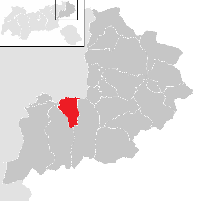 District Kitzbühel